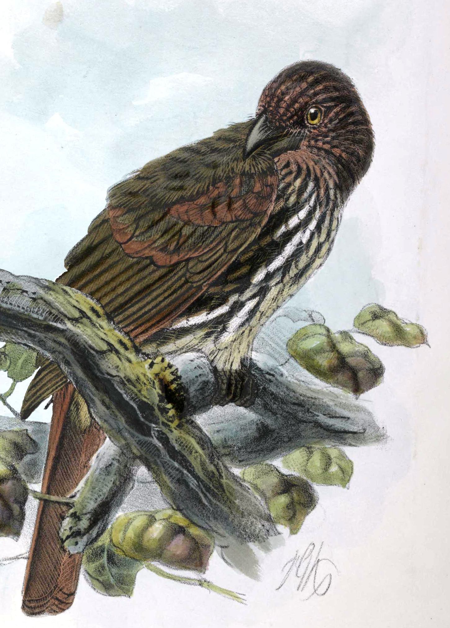 South Island Piopio, Turnagra capensis.